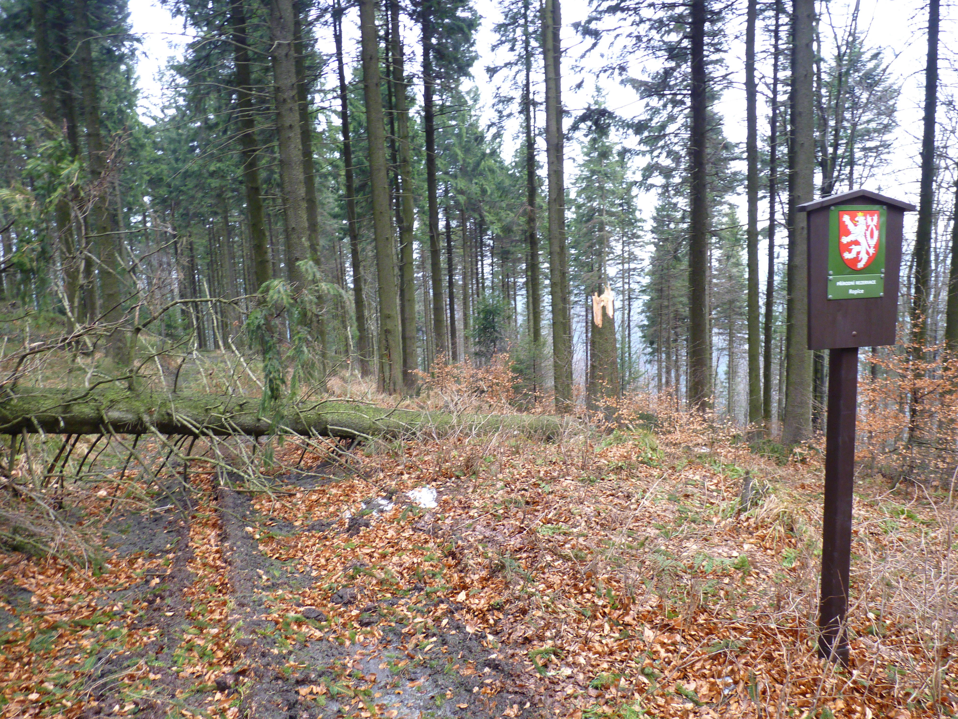 Ropice (nature reserve), Beskydy, Czech Republic